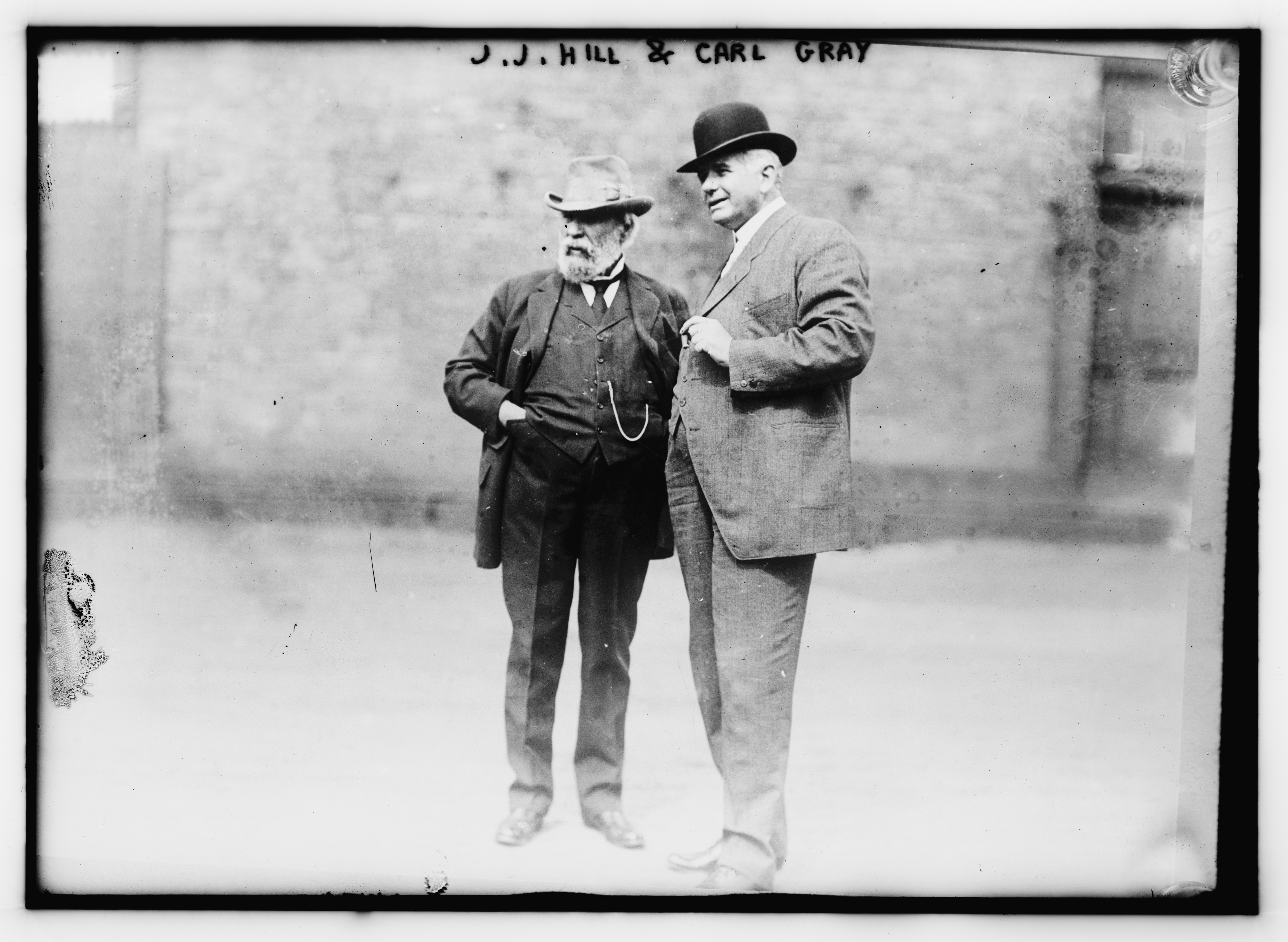 Bain News Service,, publisher. J. J. Hill & Carl Raymond Gray [between 1910 and 1915] 1 negative : glass ; 5 x 7 in. or smaller. Notes: Title from unverified data provided by the Bain News Service on the negatives or caption cards. Forms part of: George Grantham Bain Collection (Library of Congress). Format: Glass negatives. Repository: Library of Congress, Prints and Photographs Division, Washington, D.C. 20540 USA, General information about the Bain Collection is available at Persistent URL: Call Number: LC-B2- 2461-7